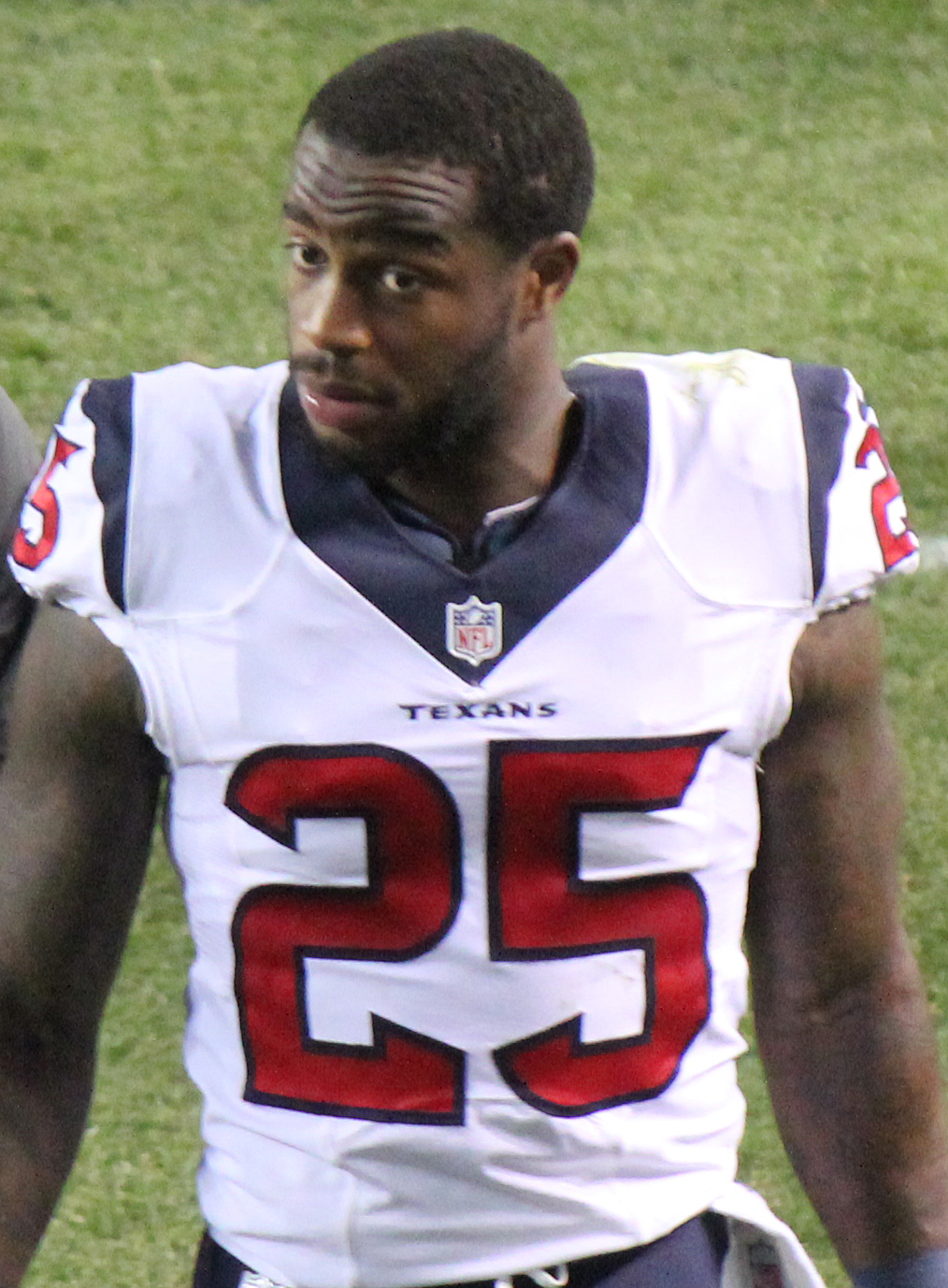 Kareem Jackson, a player in the National Football League.